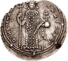 Romanus III Argyrus AR Miliaresion. Constantinople mint. Struck 1030 AD.